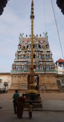 Tirucheraisaranathaperumaltemple திருச்சேறை சாரநாதப்பெருமாள்கோயில்